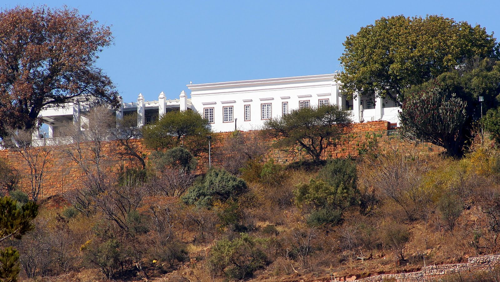 Libertas, since 1994 known as Mahlamba Ndlopfu, in 1934 by Gerard Moerdijk designed as official residence in Pretoria for the state of the Union of South Africa.